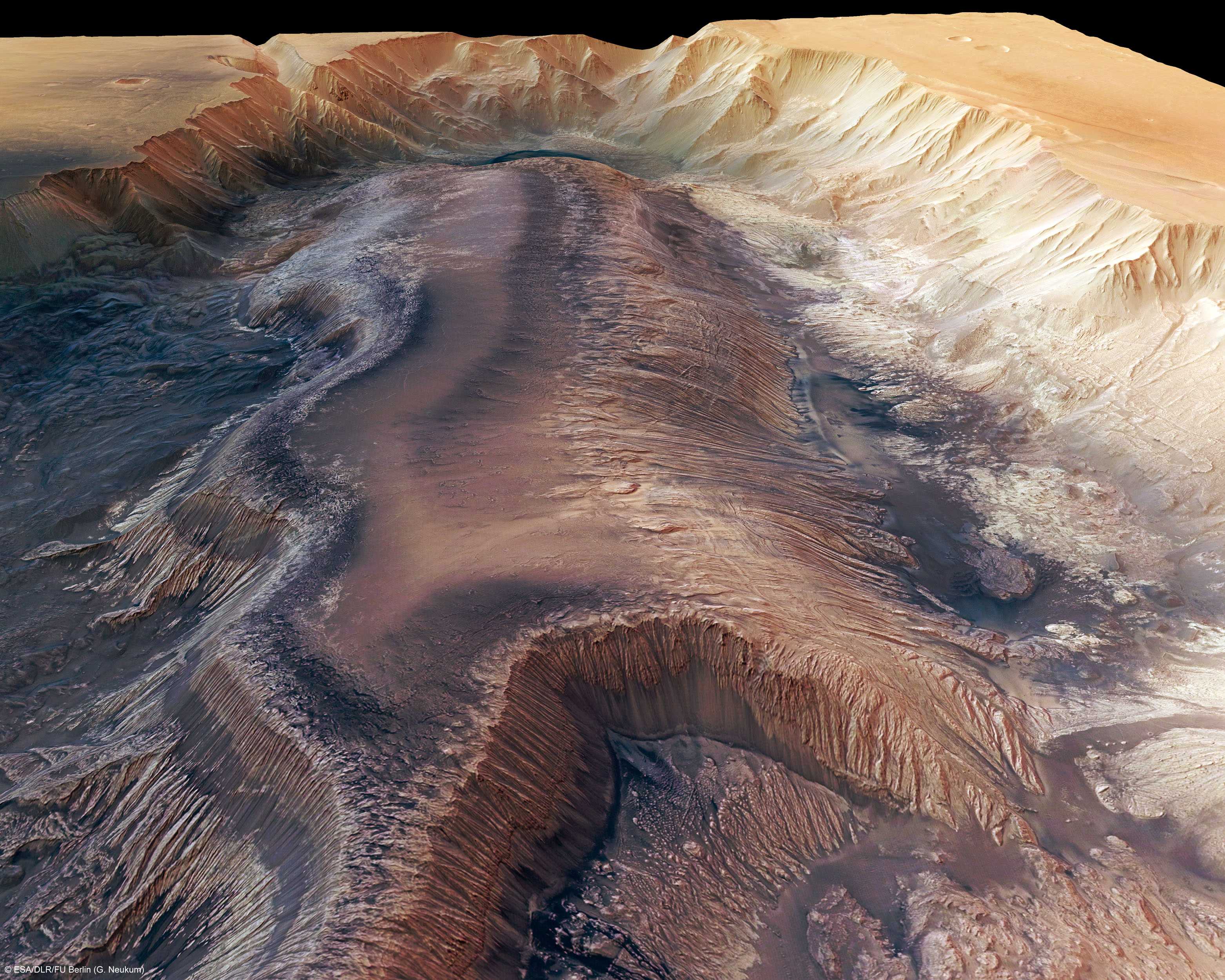 A computer-generated perspective view of Hebes Chasma on Mars based on data from Mars Express. The view is looking westwards.